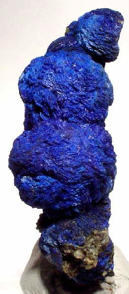 Azurite Locality: United Verde Mine (The Big Hole; Big Hole property; Hull Mine; Hopewell tunnel; Patented claim 3480; Patented claim 2812; Patented claims 3348), Jerome, Arizona, Verde District, Black Hills (Yavapai County), United States (Locality at ) An aesthetic vertical cluster of four dark royal-blue, bladed azurite rosettes on a sliver of matrix from a lesser, but still well-known, Arizona locality, the United Verde Mine at Jerome. 5.4 x 2.6 x 2.2 cm